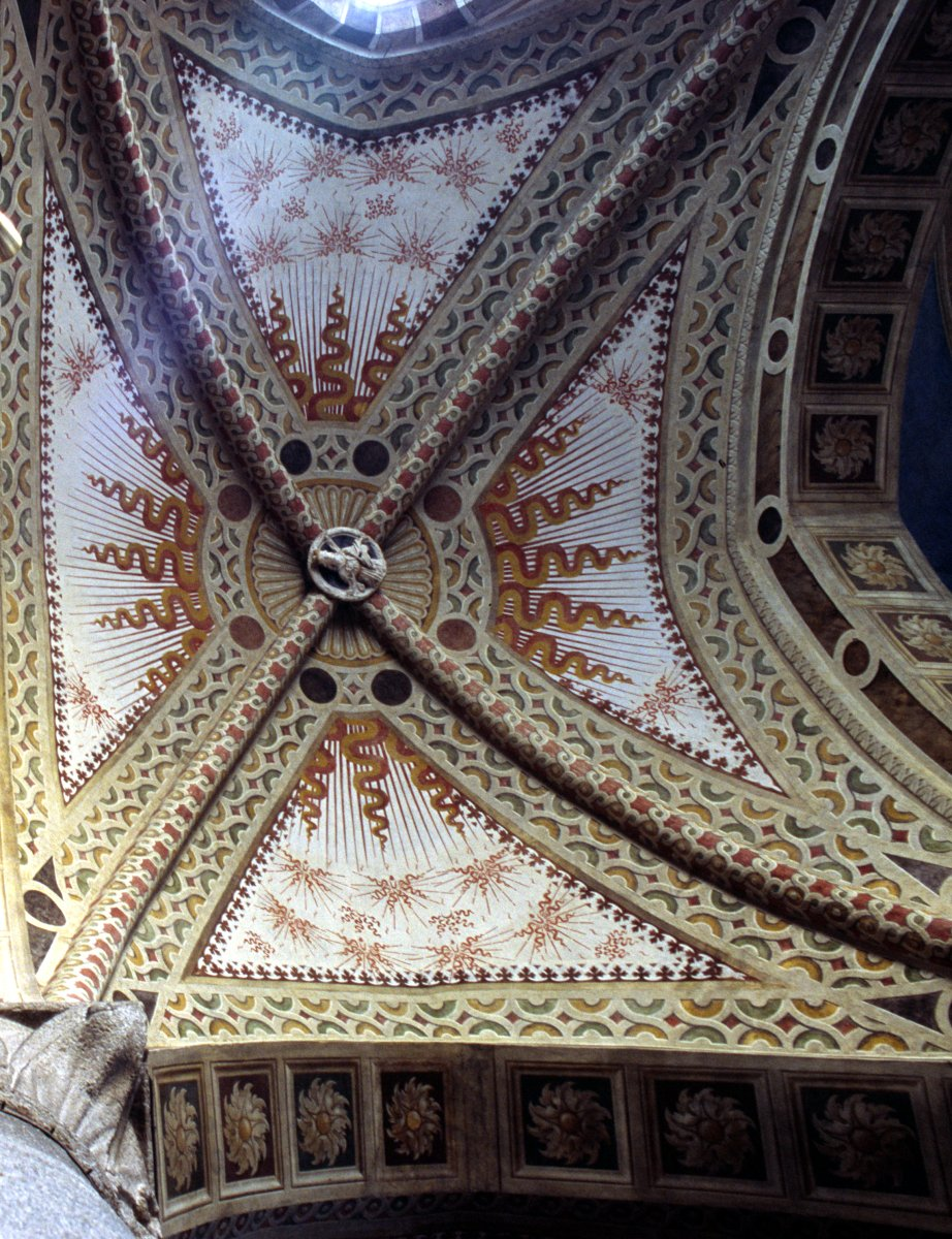 Interior detail of Santa Maria delle Grazie church, Milan 30.12.2005. Photo by Mikko Virtaperko.